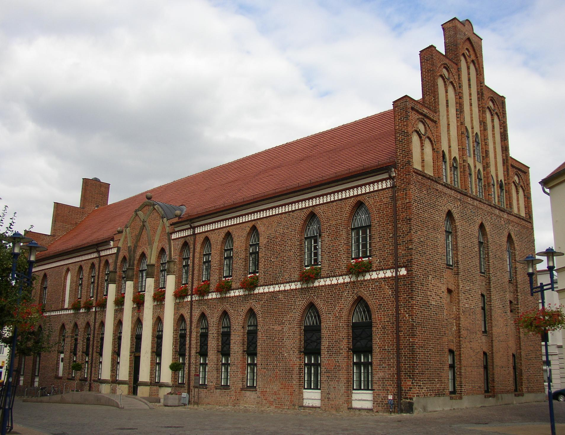 Town hall in Parchim in Mecklenburg-Western Pomerania, Germany